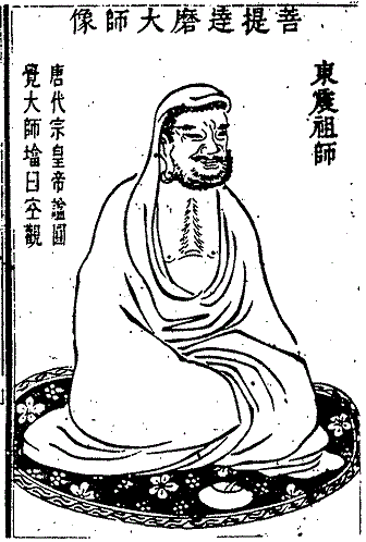 Portrait of Bodhidharma